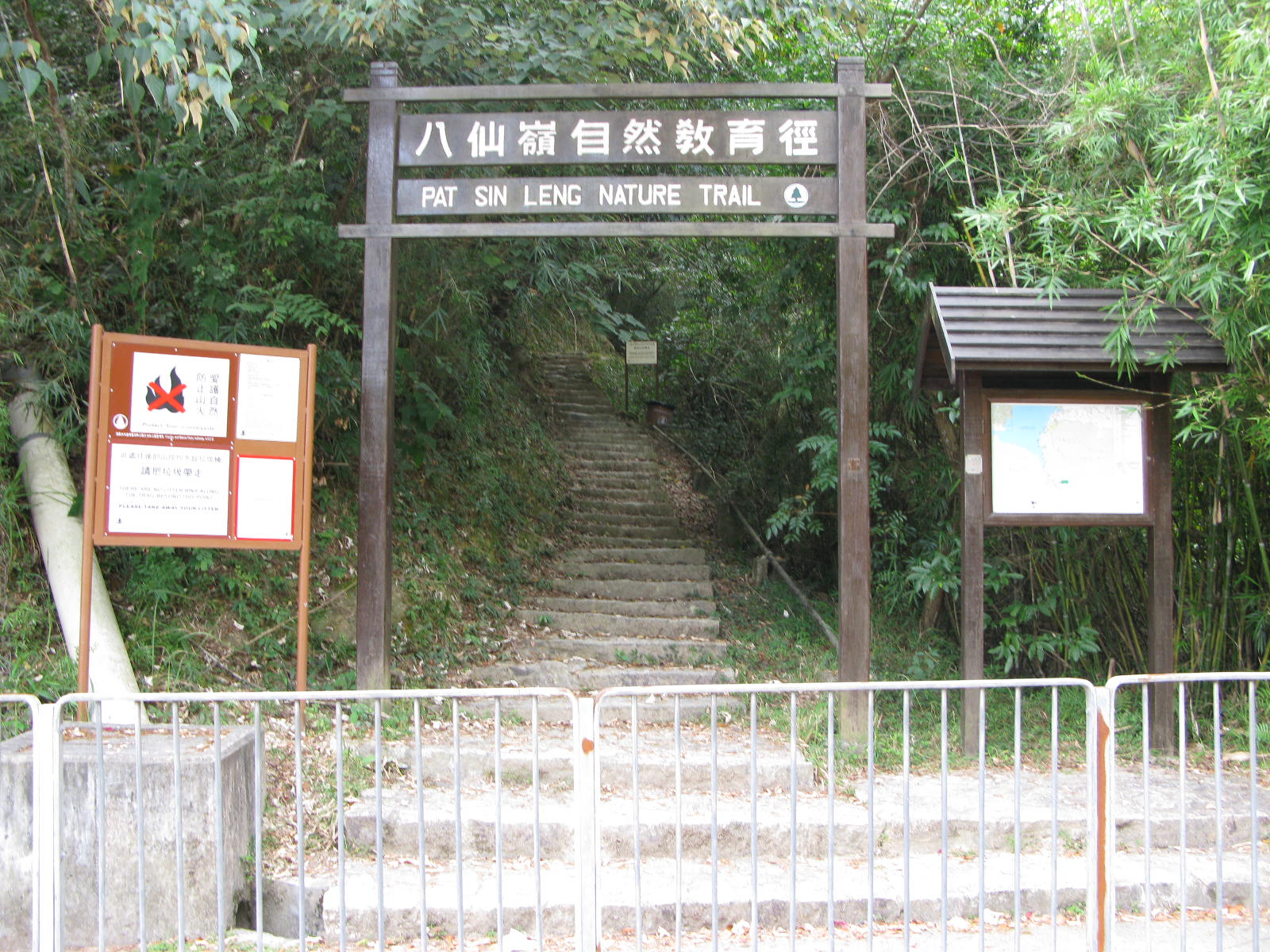 中文（香港）: 香港新界 八仙嶺自然教育徑 Pat Sin Leng Nature Trail 入口，Bride's Pool Road 新娘潭路